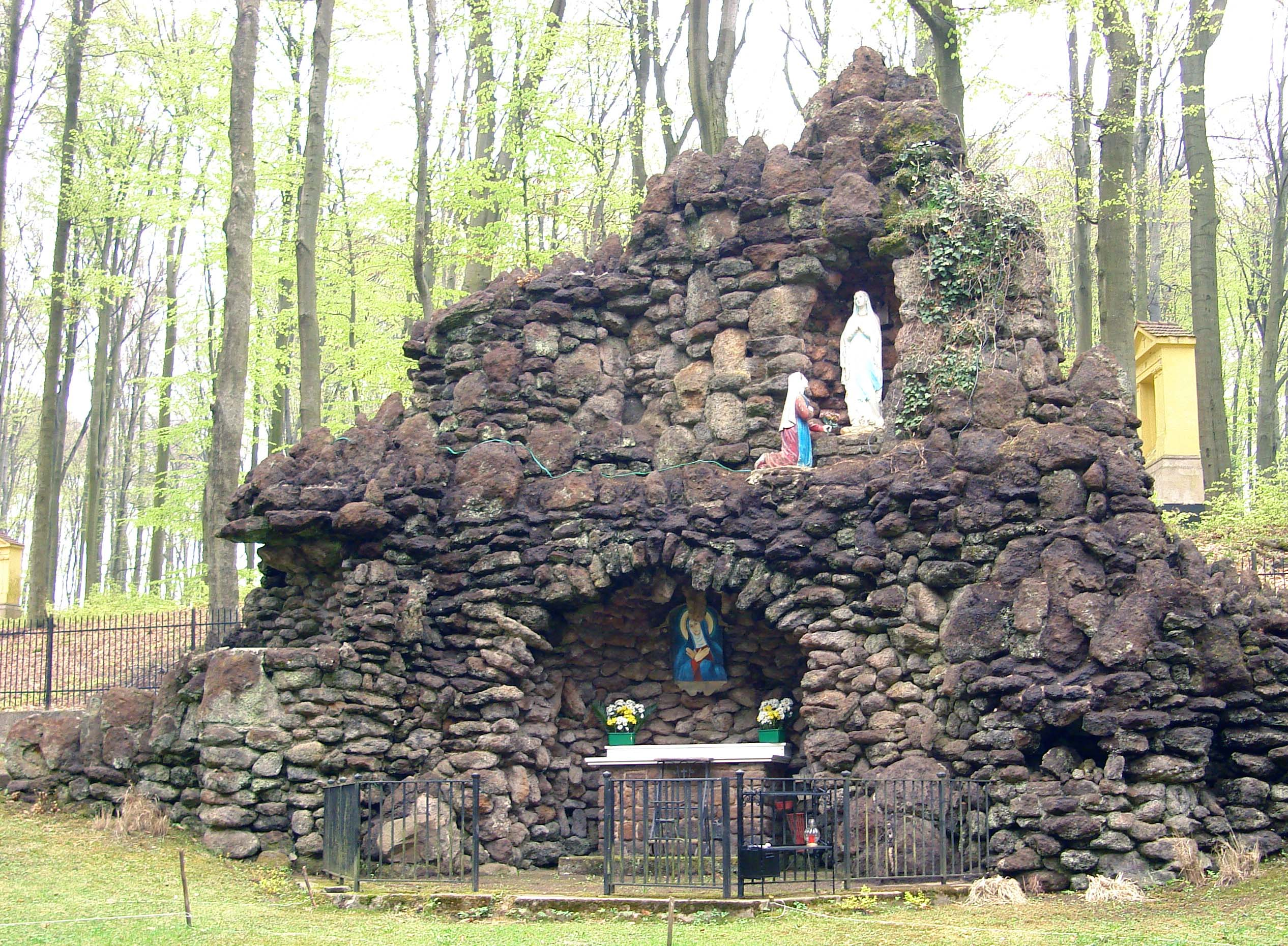 Grota